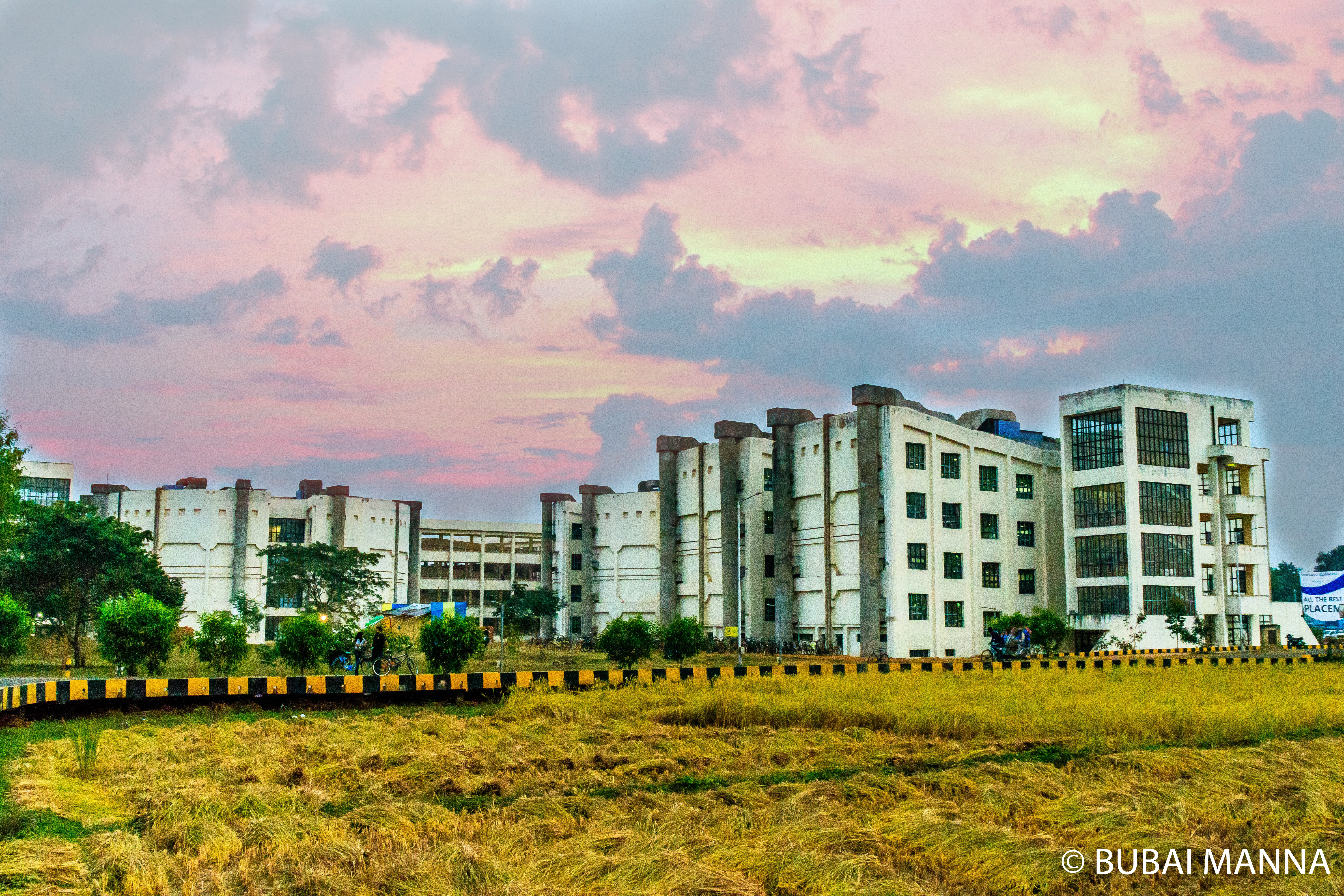 Taken by Bubai Manna